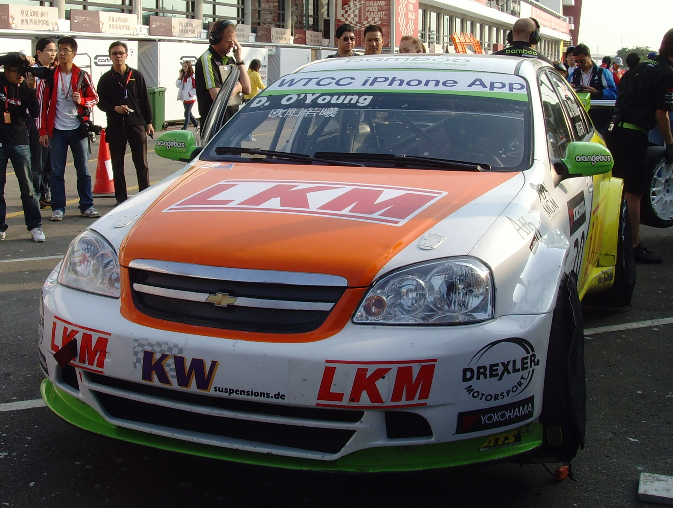 Darryl O'Young in a Chevrolet Lacetti for Bamboo Engineering at Guia Circuit, WTCC 2010Original description: 2426 Macau Grand Prix - WTCC